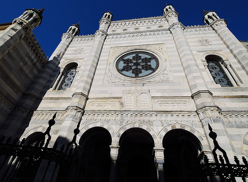 Sinagoga di Vercelli